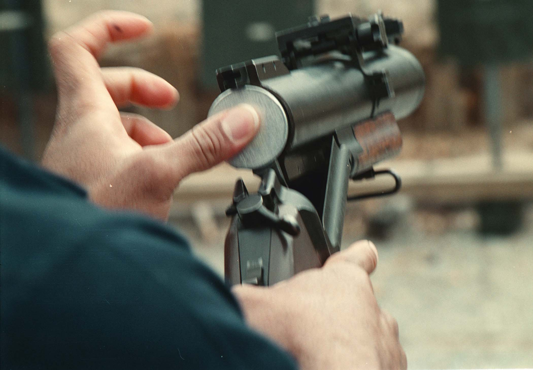 PhotoID: 2000516134038. Submitted by: MCB Camp Lejeune. Operation/Exercise/Event:Nonlethal. Caption: A Coast Guardsmen [sic] loads an M-79 with a non-lethal round. The Coast Guard was at Camp Lejeune testing different types of non-lethal weapons. Photo by: Sgt. Brannen Parrish. Date the Photo was taken: 04/25/2000.